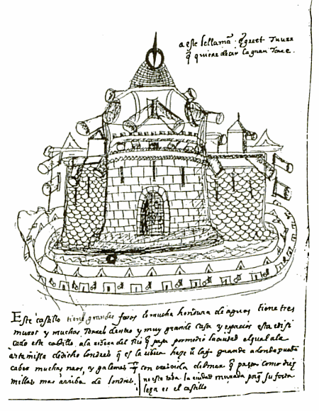 A drawing of the Tower of London by Bernardino de Escalante, who visited the city along with the future King Philip II of Spain in 1554-1555. The original is in the National Library of Spain, Madrid.